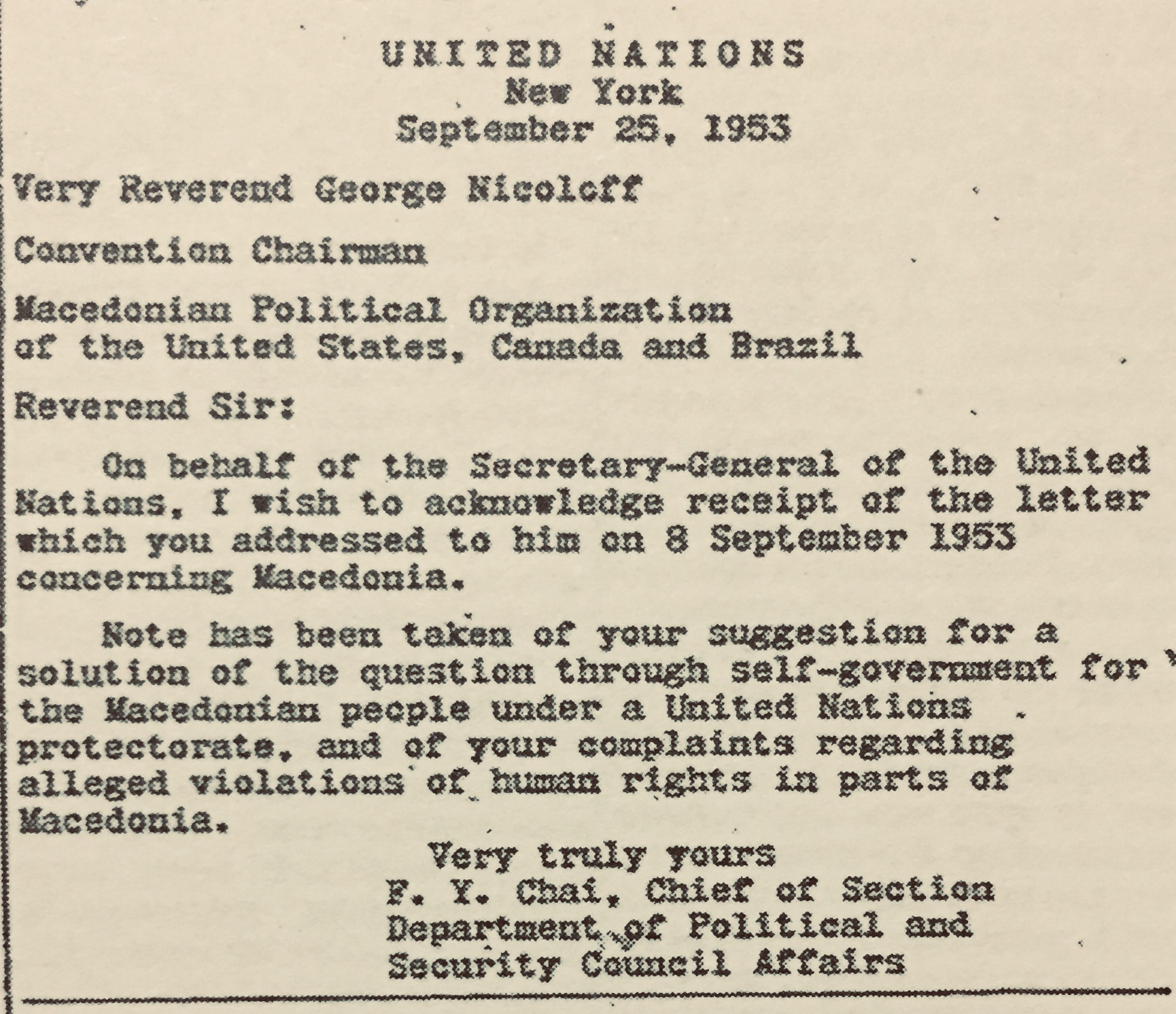 The official response from the United Nations to a petition sent by the Macedonian Patriotic Organization (MPO), advocating for a solution to the Macedonian Question through self-government for the Macedonian people under a United Nations protectorate.